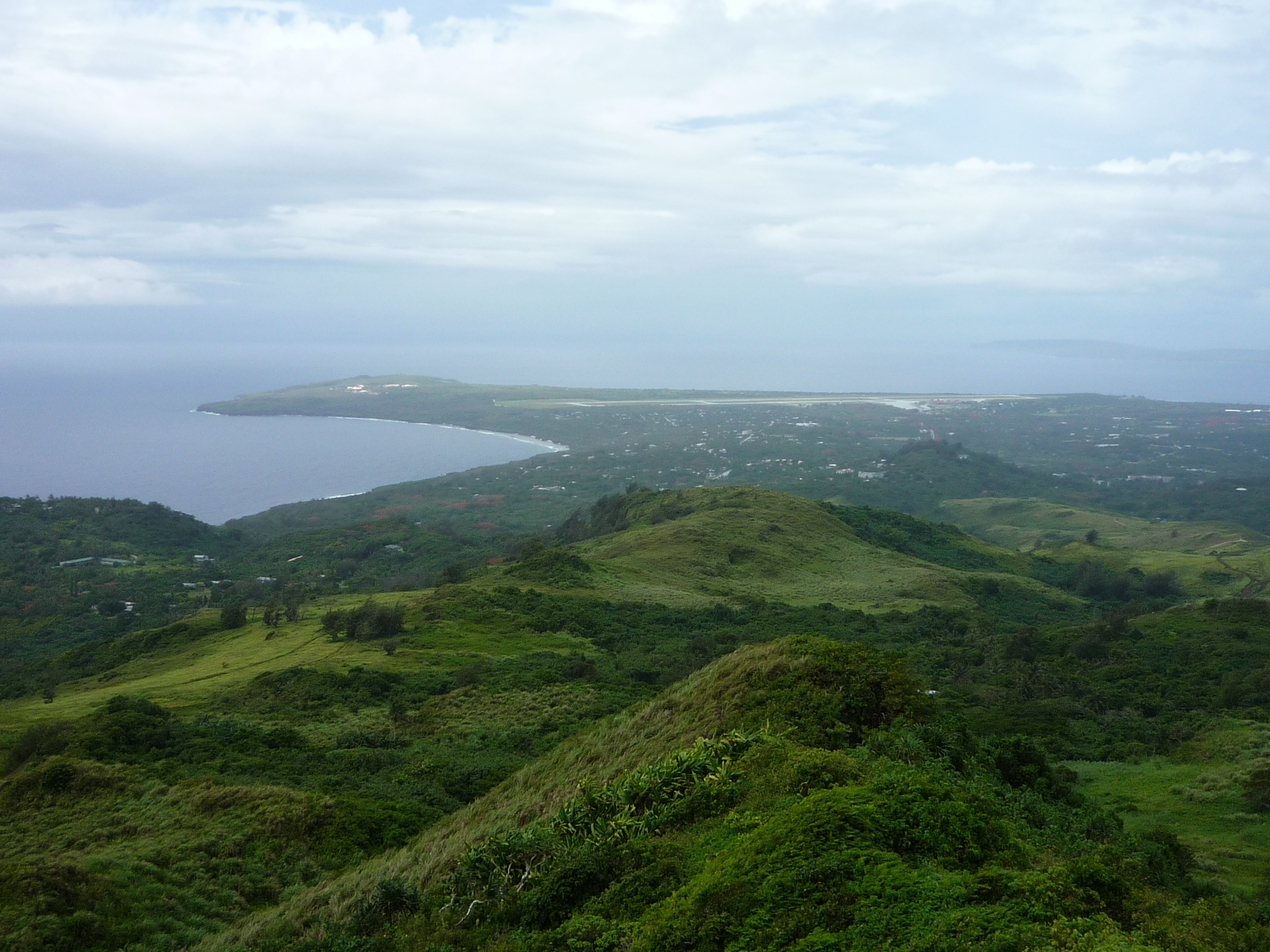 View of Saipan International Airport from the top of Mt Tapochau.